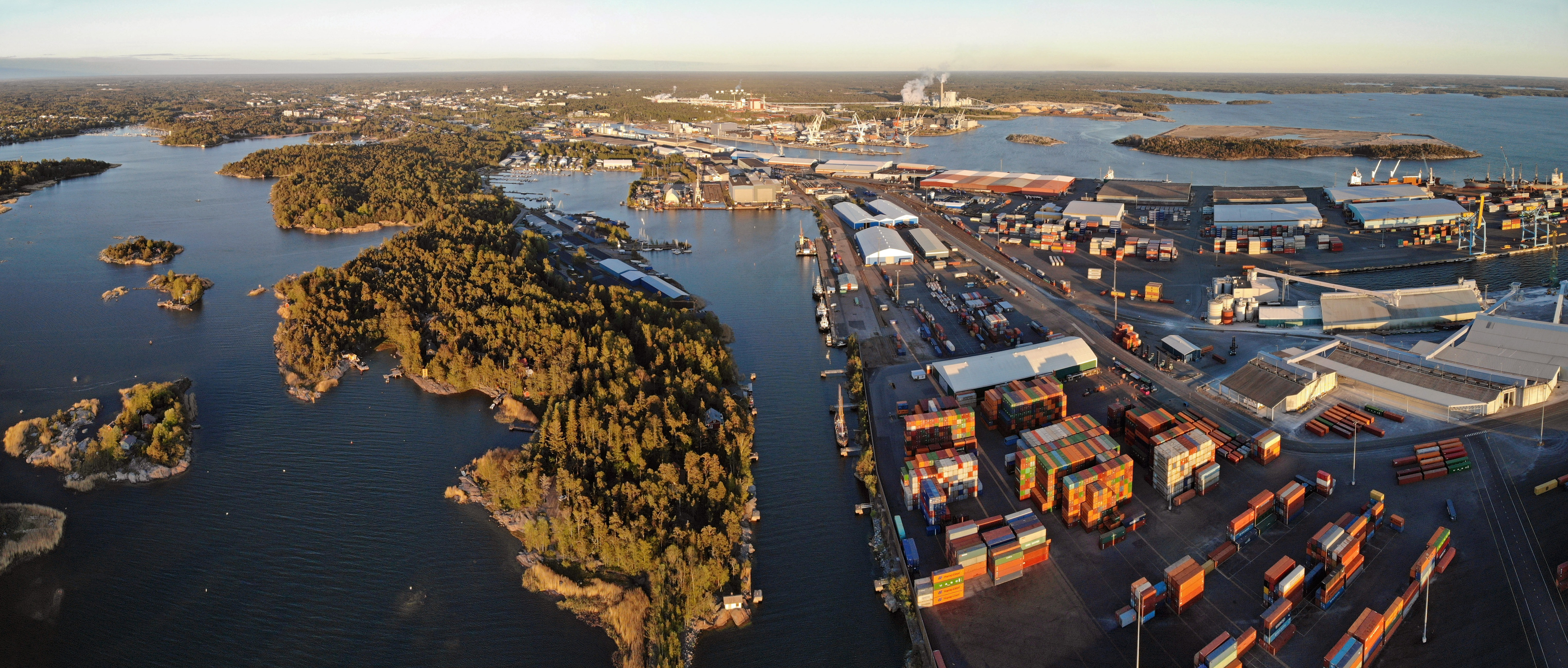 Panoramic view of Petäjäs peninsula and port of Rauma.